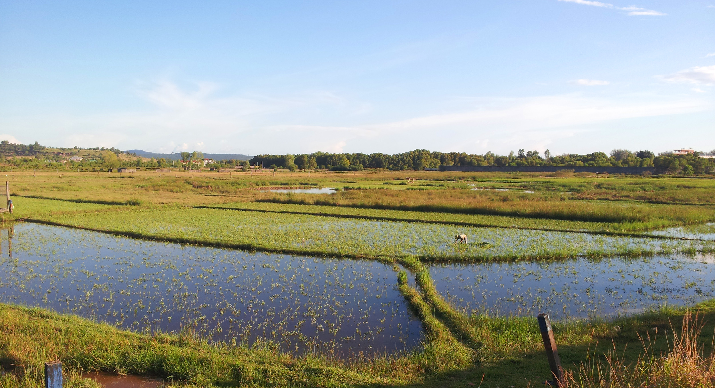 coastal plains between Sihanoukville and Ream, Cambodia 2014